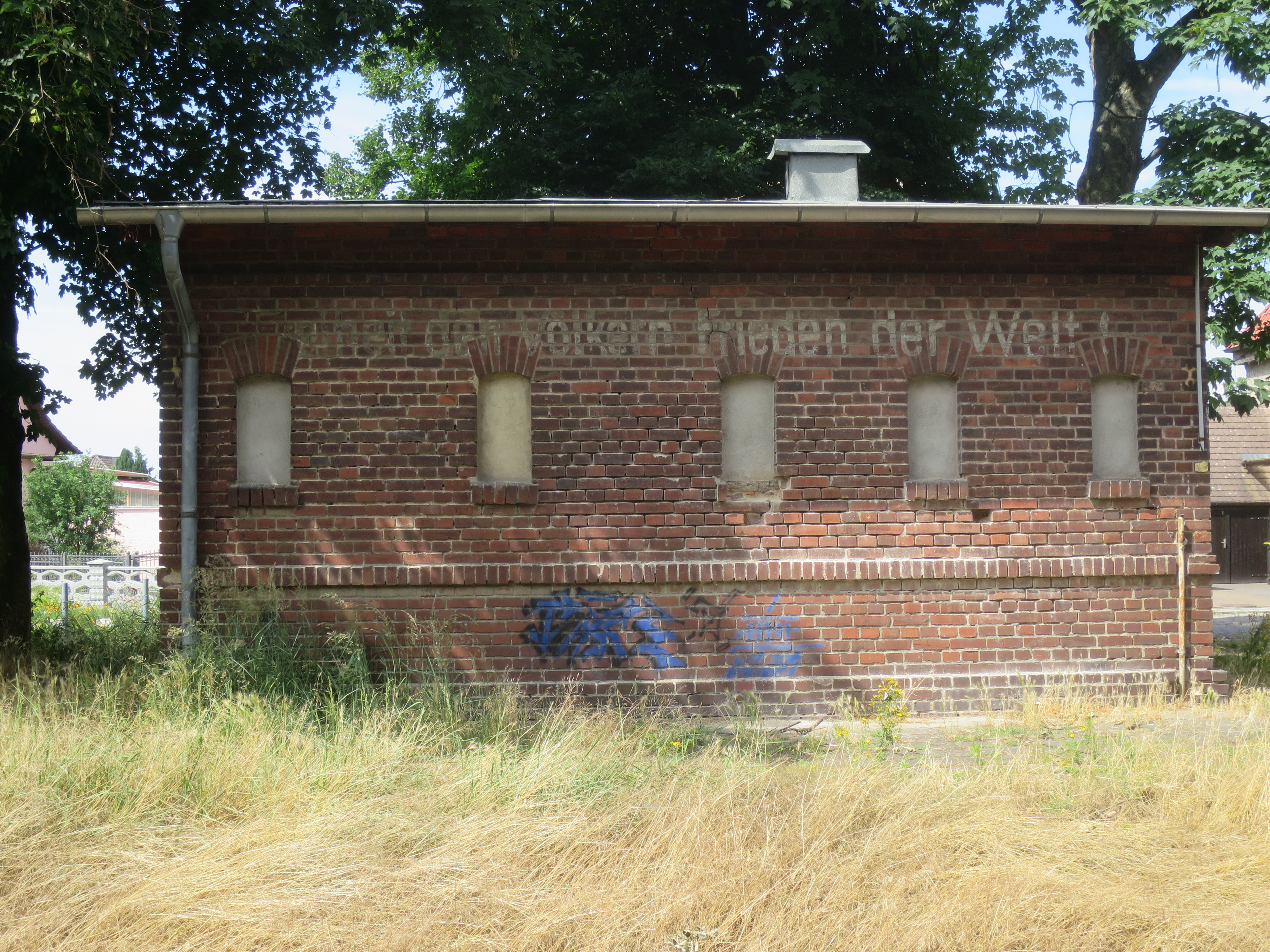 Toilet building Wörlitz Station, Germany. Inscription: "Freedom for peoples - peace om earth".